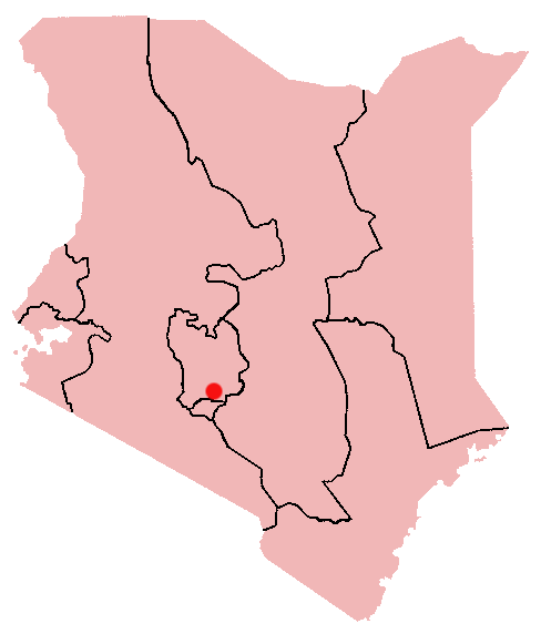 Thika, Kenya Location Map; created with the GIMP. Made by User:Acntx.